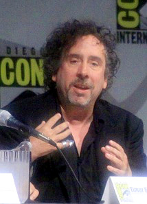 Tim Burton, speaking at ComicCon 2009